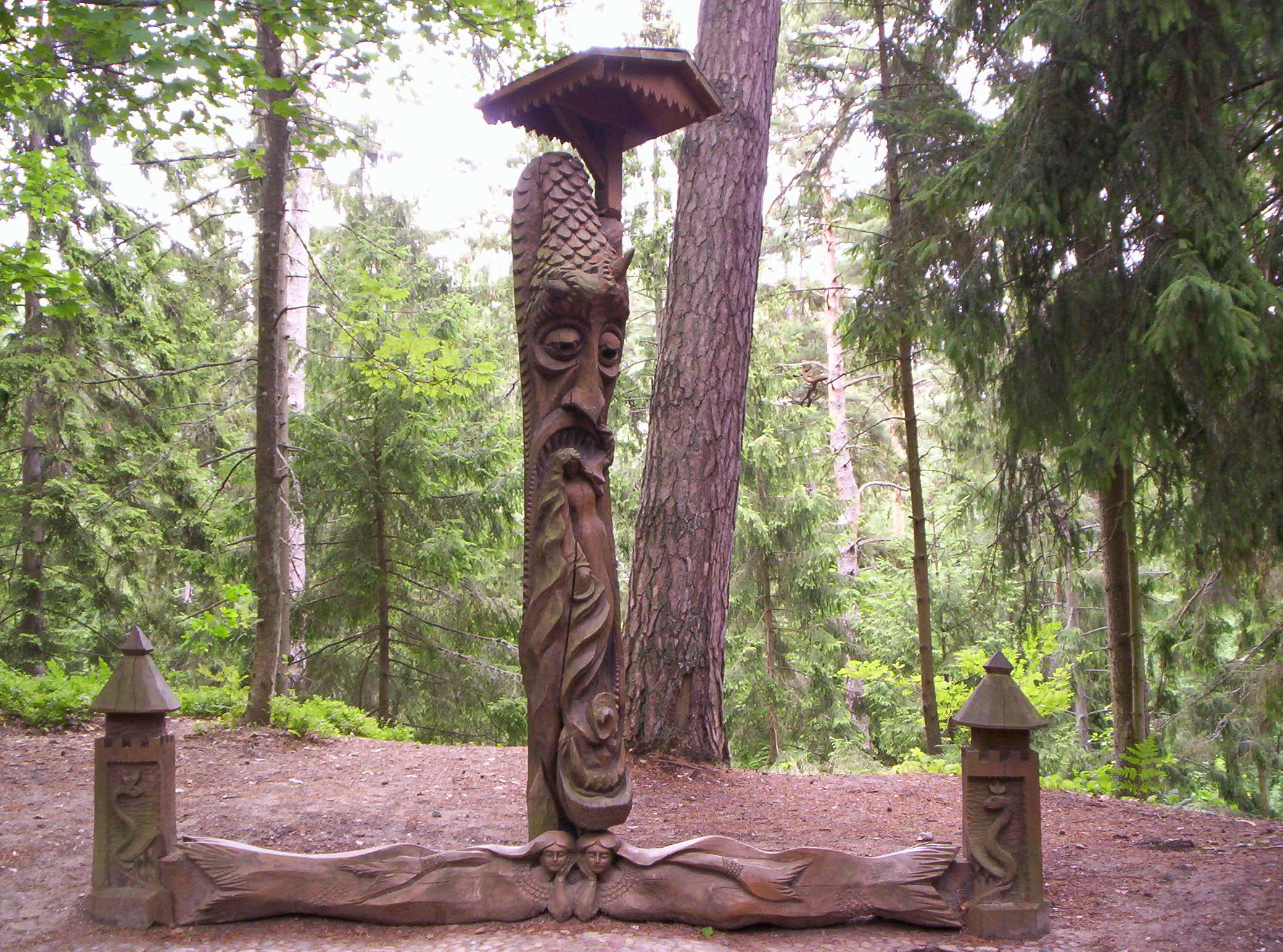 Juozo Jakšto 1980 m. skulptūra „Neringos žuvimas“